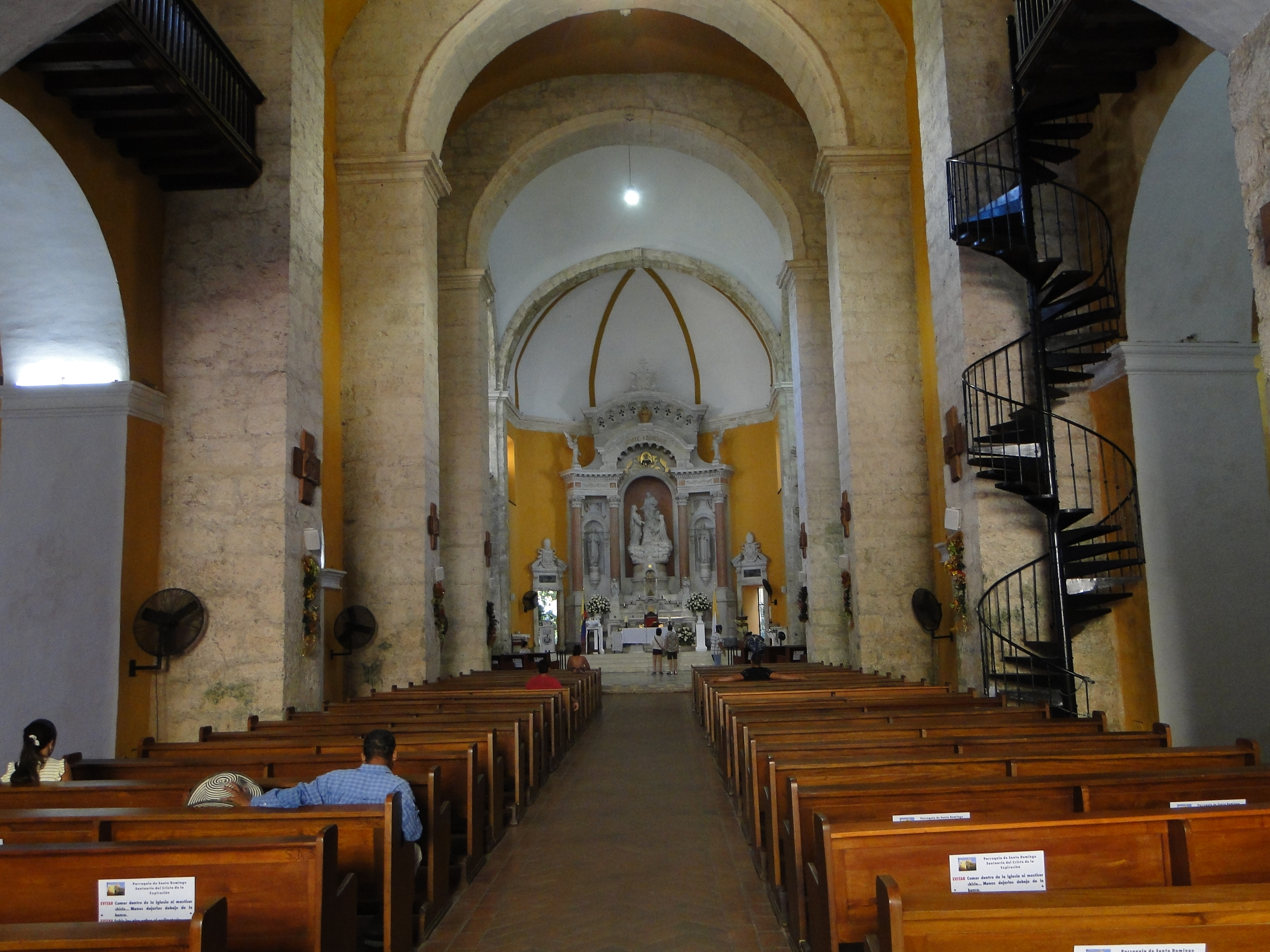 Convento de Santo Domingo (Cartagena), Columbia